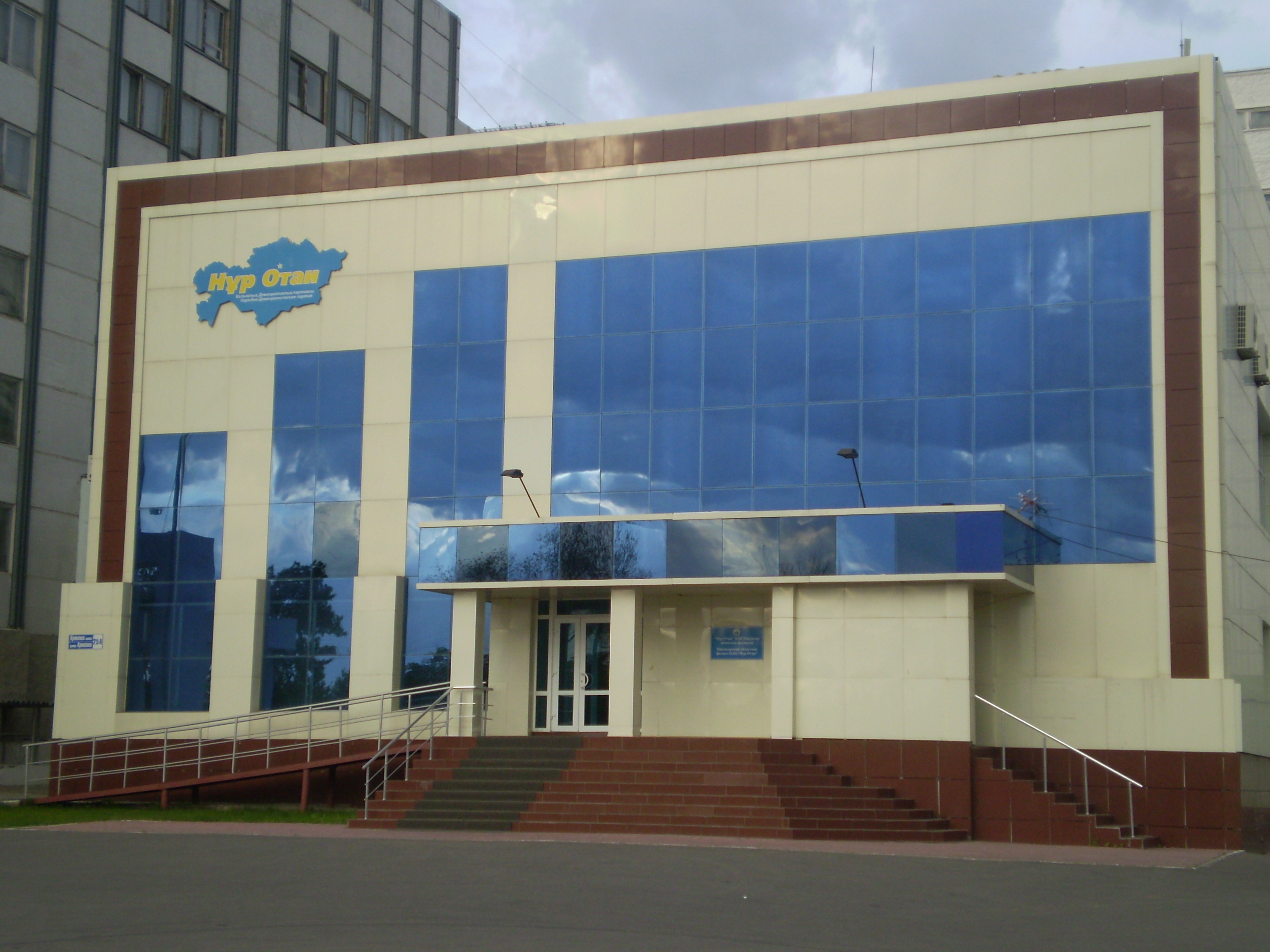 Office of Pavlodar representative of Nur Otan political pro-presidential party. Kazakhstan